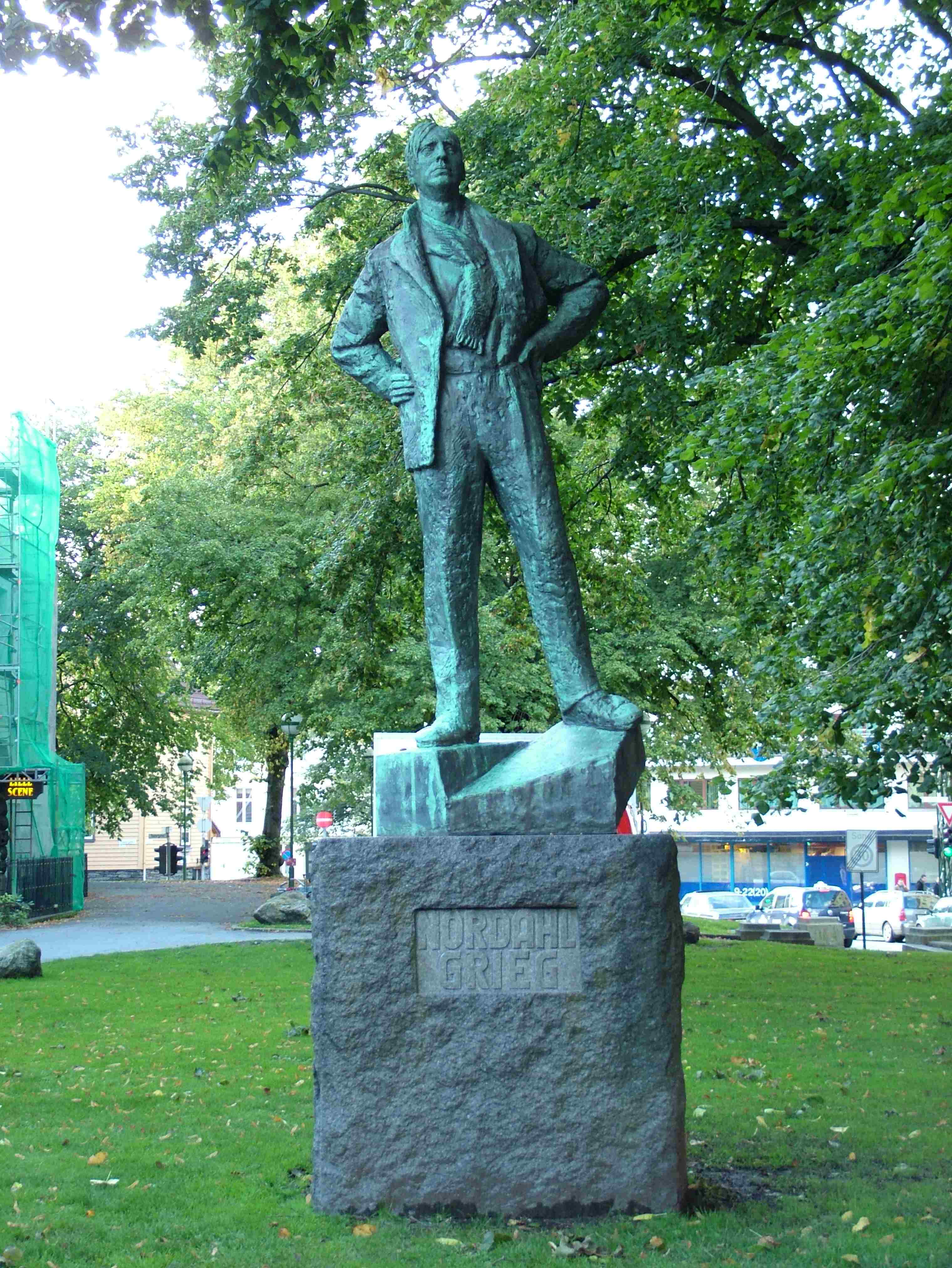 Statue of Norwegian poet Nordahl Grieg, designed by Roar Bjorg and erected beside Den Nationale Scene Theatre in Bergen, Norway 1957.